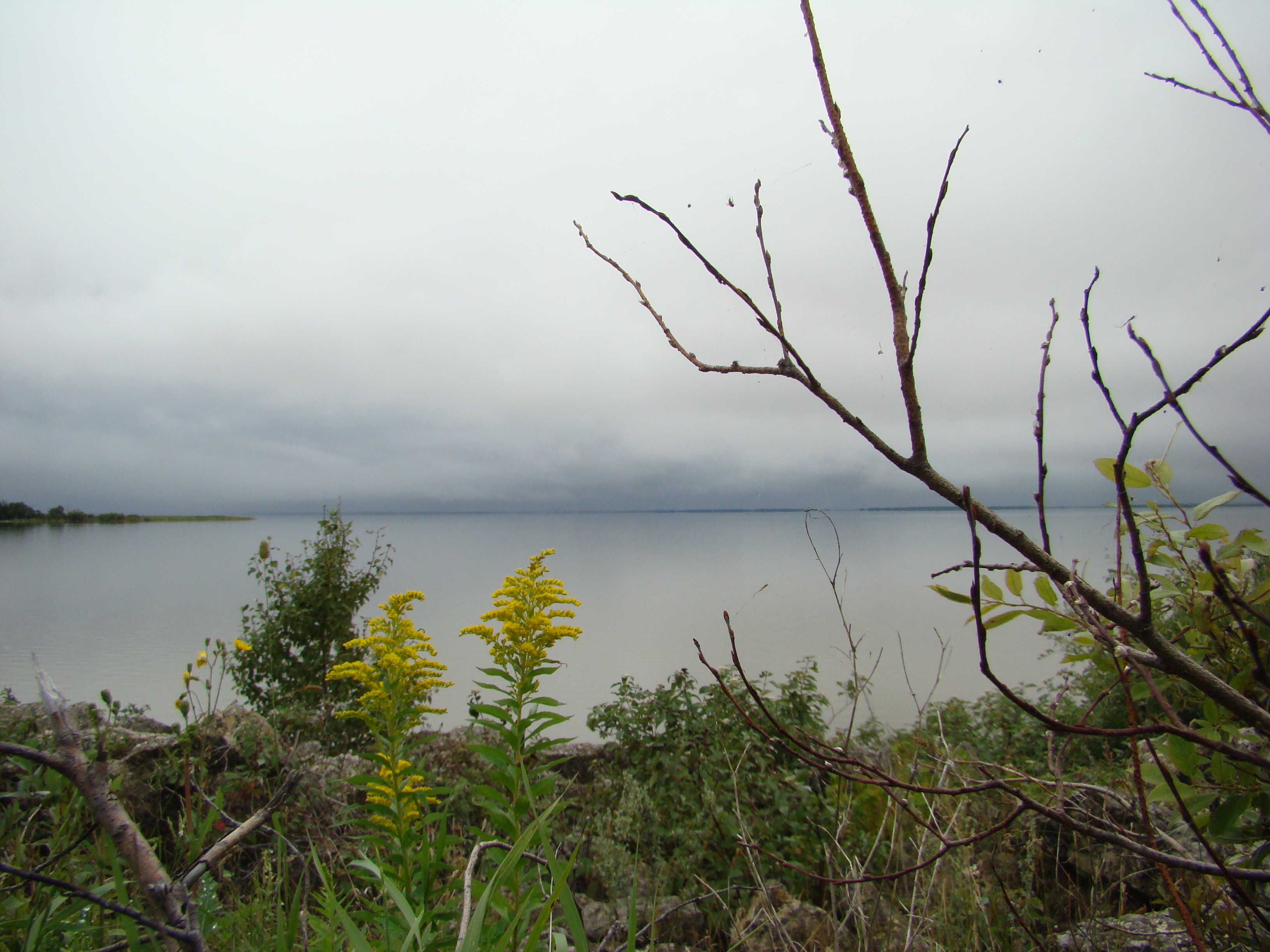 Hecla Island and Provincial Park in Lake Winnipeg Manitoba